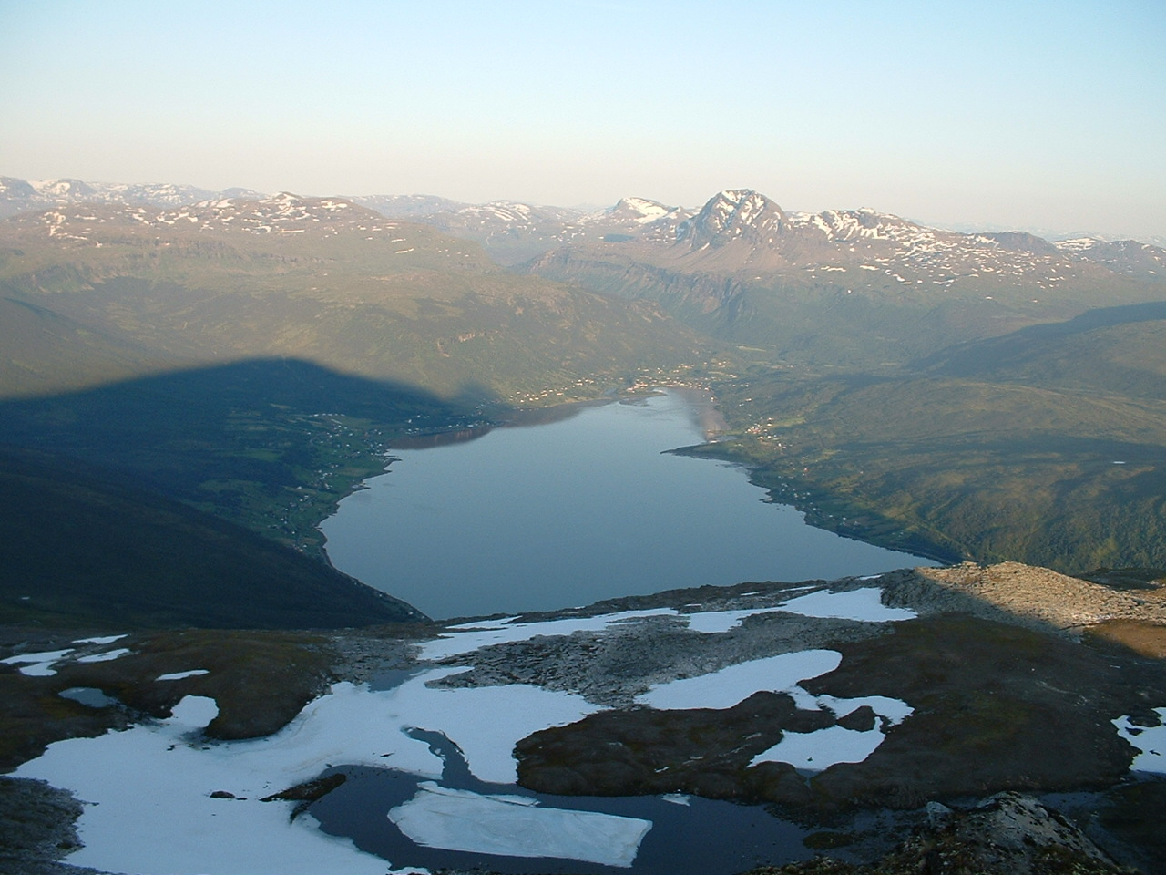 The picture shows the inner part of the Lavangen fjord and the surrounding areas. At the innermost shore lies Tennevoll, which is the administrative centre of Lavangen municipality in Troms county in Norway. The Spansdalen valley and Spanstind can also bee seen. The picture is taken from Skavneskollen.